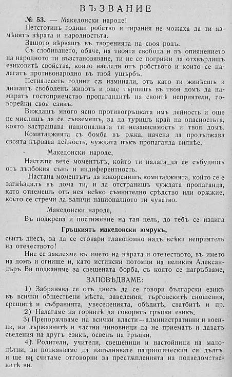 Proclamation of Greek Macedonian Fist, translated in bulgarian